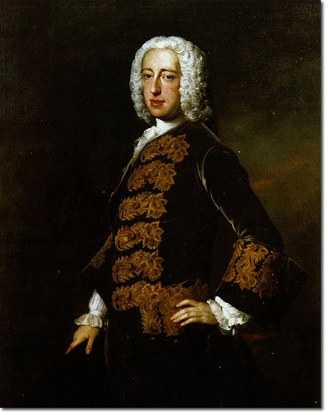 Portrait of General Sir John Mordaunt